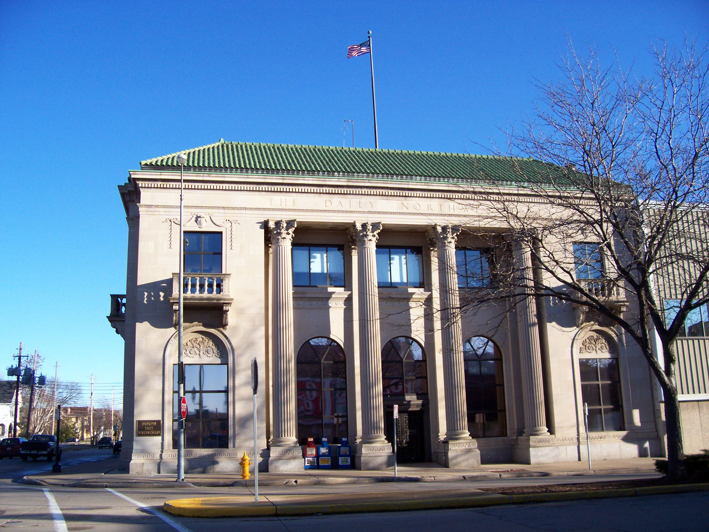 The Oshkosh Northwestern newspaper building in Oshkosh, Wisconsin, USA. The building for the newspaper was listed on the National Register of Historic Places on May 13, 1982. It is a significant example of 1930 Renaissance architecture.